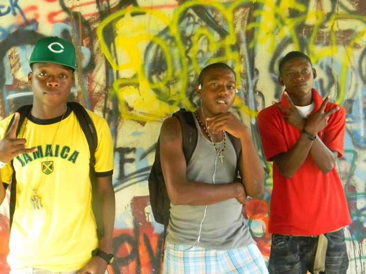 Photo shoot With Dcoy Link in Belize